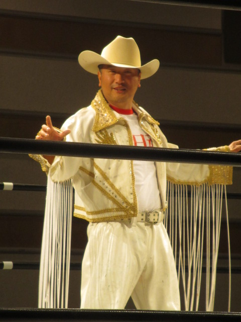 Japanese professional wrestler,Ryuji Yamakawa. Feb 24 2018, BAR045 1st anniversary, Yokohama Radiant Hall.